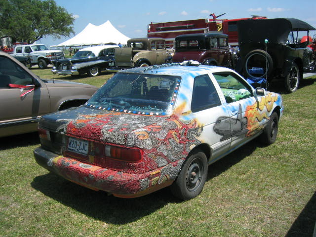 1990 Nissan Sentra (Challenger art car - a tribute to the Challenger 7)